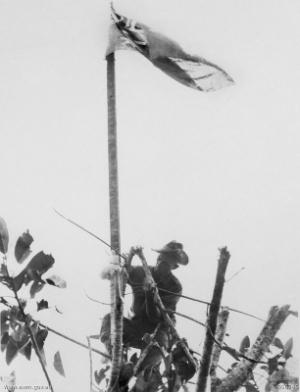 Thomas Currie "Diver" Derrick VC DCM hoists the Australian flag at Sattelberg, New Guinea following the town's capture by the 2/48th Australian Battalion.